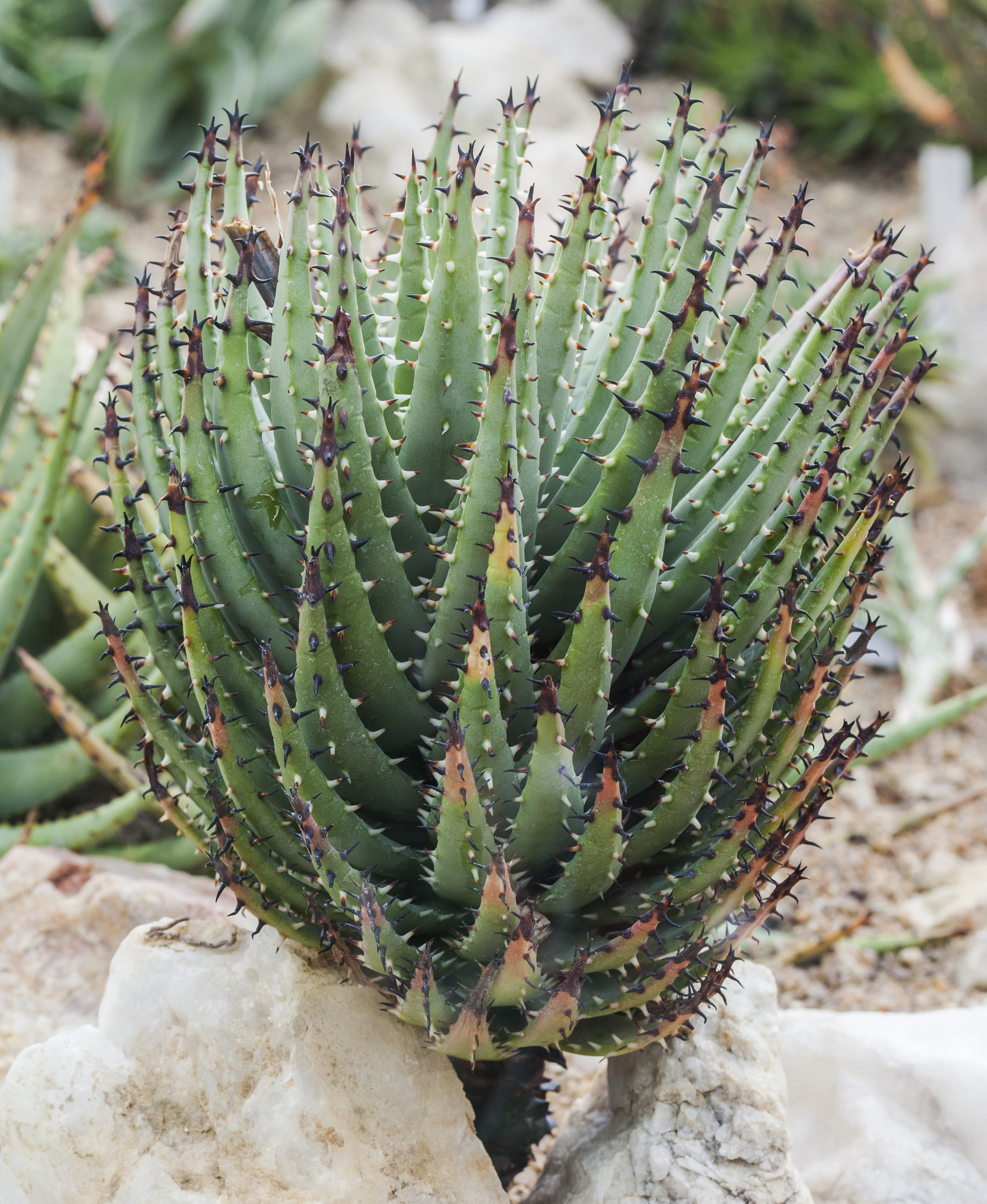 Orbeanthus hardyi, Munich Botanical Garden, Germany. This is an Aloe (A.erinacea) and not a stapeliad. Definitely mislabeled.